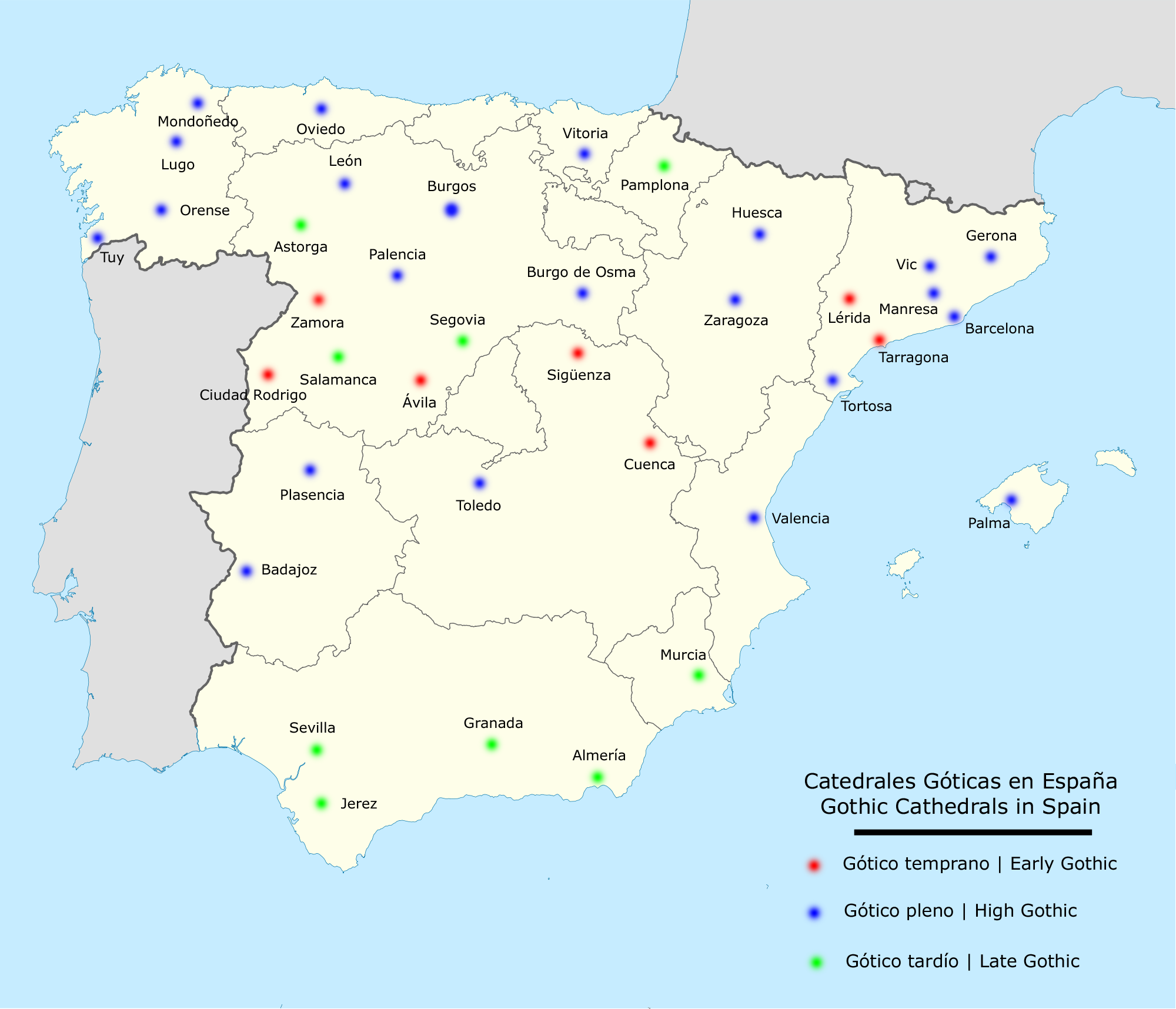 Map of gothic cathedrals in Spain (except Canary Island, Ceuta and Melilla).